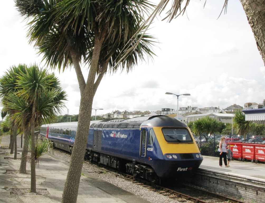 First Great Western 43138 stands at Newquay railway station in Cornwall, United Kingdom with a summer Saturday service to London.